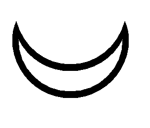 This is the sign of being a magical warrior or a special person/animal.